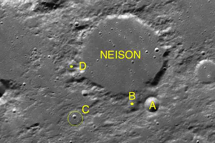 Part of the chart LAC-4 used for the presentation